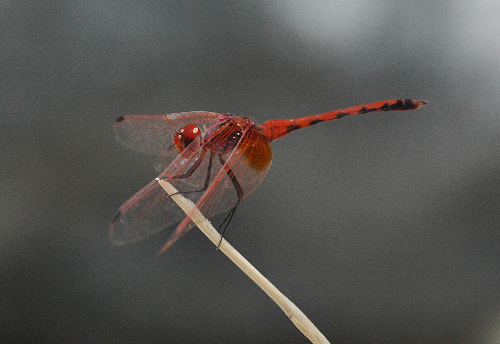 Trithemis sp.